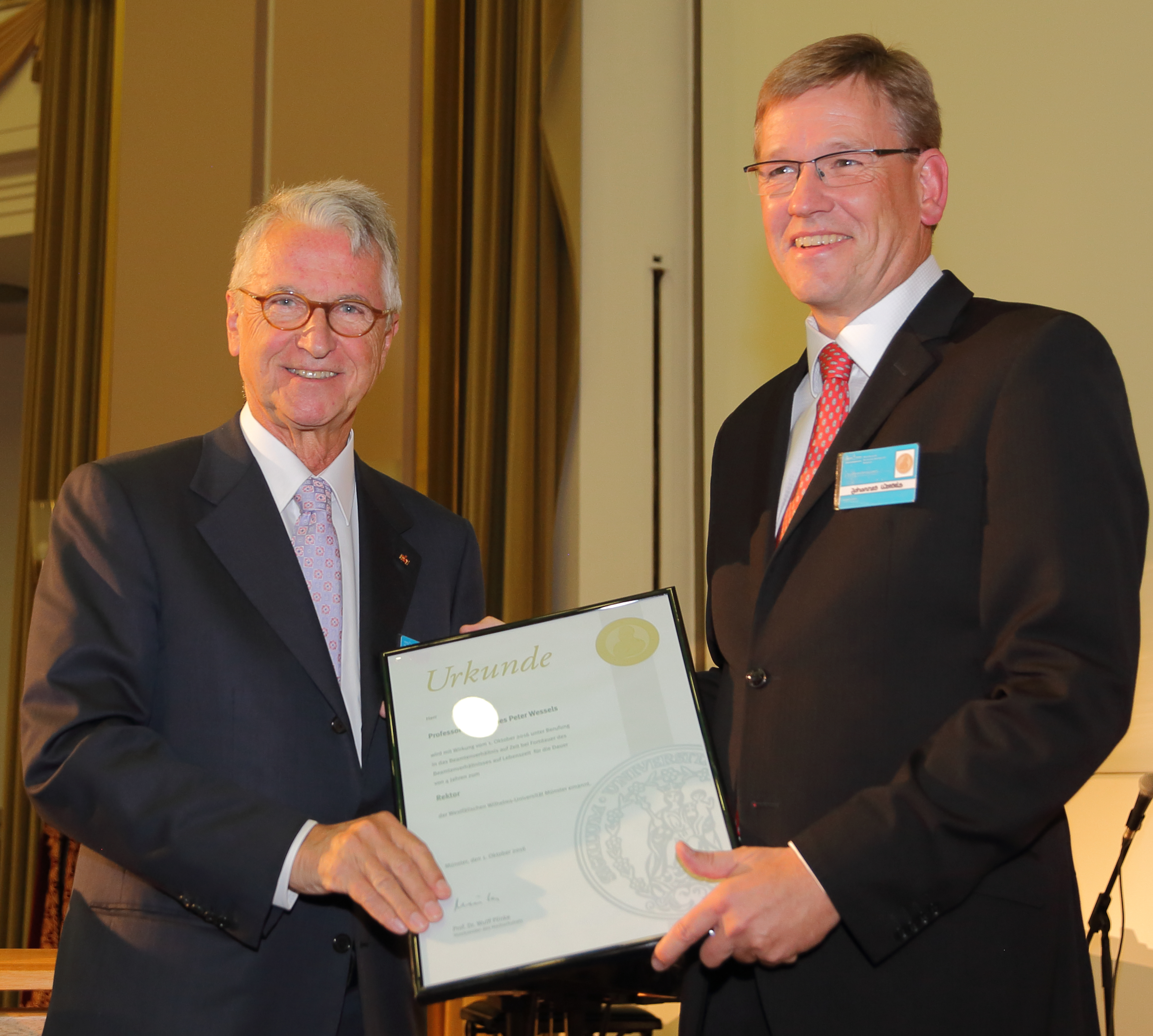 Change of the Rectorate ceremony at the auditorium of the University of Münster (Westfälische Wilhelms-Universität Münster) in Münster, North Rhine-Westphalia, Germany. Inauguration of German physicist Professor Dr. Johannes Wessels (right) as the University's new Rector. Here he receives his certificate of appointment from Professor Dr. Wulff Plinke.